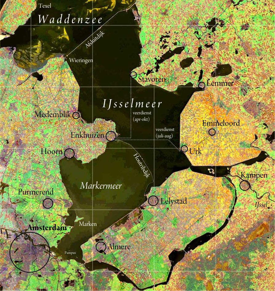 IJsselmeer (also known as Lake Ĳssel or Lake Yssel) Satellite photo from Nasa Visible Earthvcomposition photograph, colours and scale correction, card layout done by Ed Stevenhagen